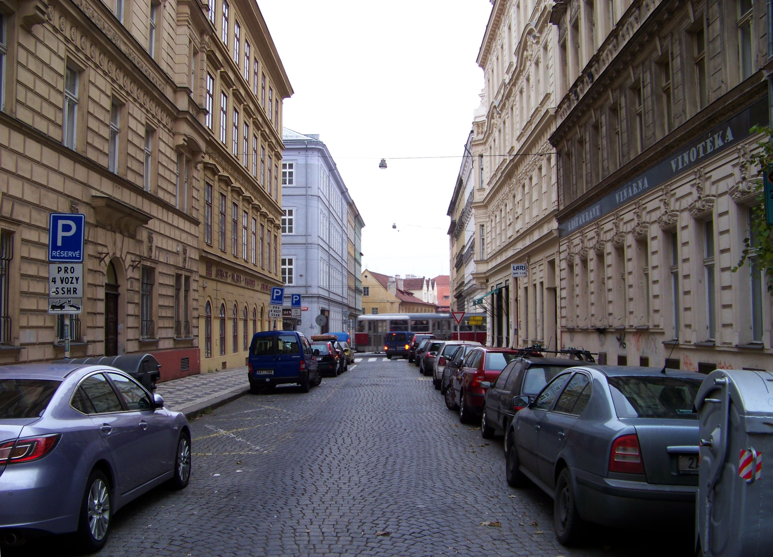 Prague-Malá Strana, the Czech Republic. Šeříková street. - OpenStreetMap(Info)